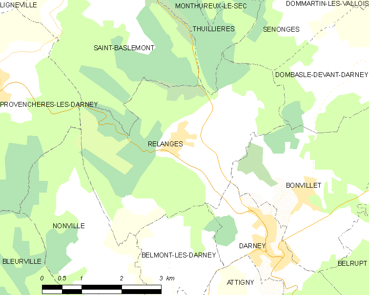 Map of French municipality Relanges